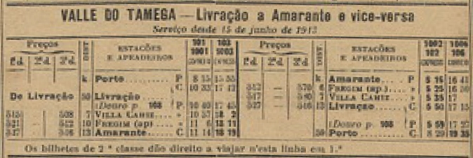 Timetable of the Linha do Tâmega (Tâmega Railway), in Portugal, on the 15th July 1913. This image was published on the Guia Official dos Caminhos de Ferro de Portugal No. 168, of October 1913, and scanned by the Biblioteca Nacional de Portugal.